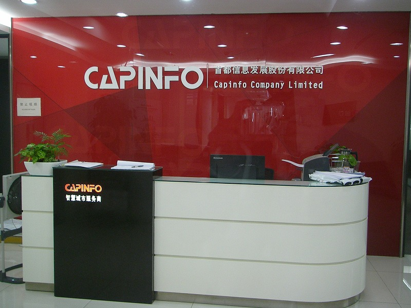 capinfo 2017